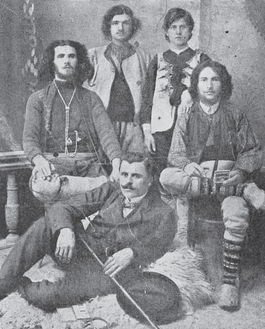 Portrait of Georgi Muchitanov, Taki Nikolov and other members from IMARO